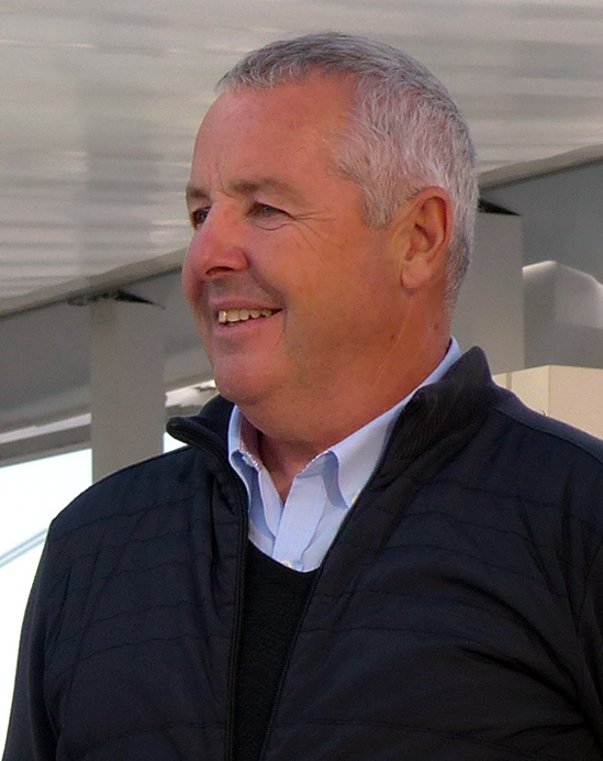 Stephen Roche at the "Bonjour le Tour" event in Düsseldorf, Germany, 2017.